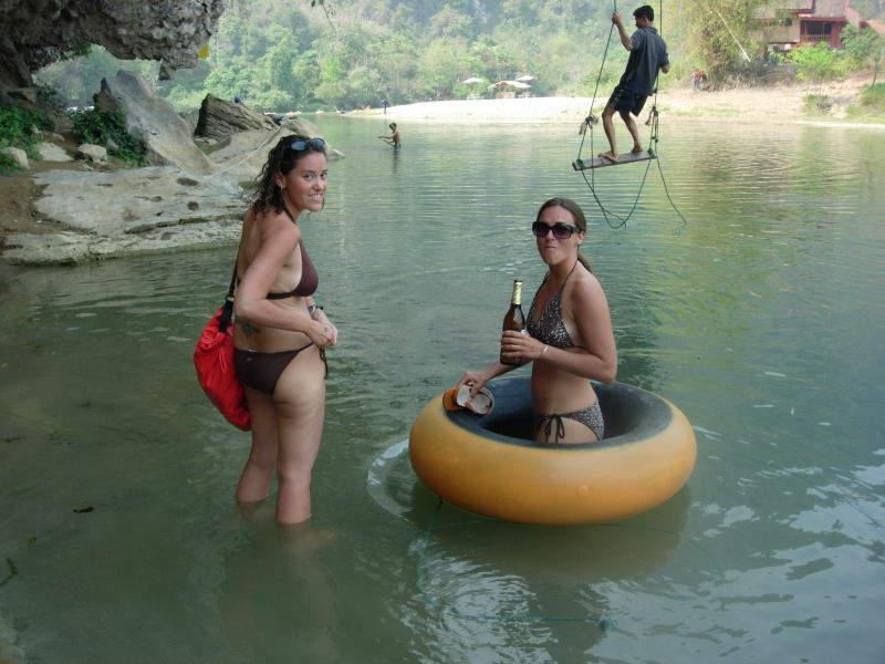 Tubing in Laos (Vang Vieng, Vientiane province)